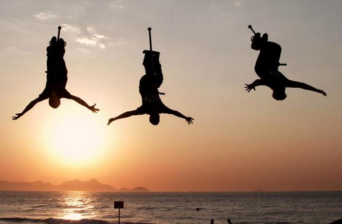 Xpogo riders synchronize no-handed backflips in Rio, Brazil